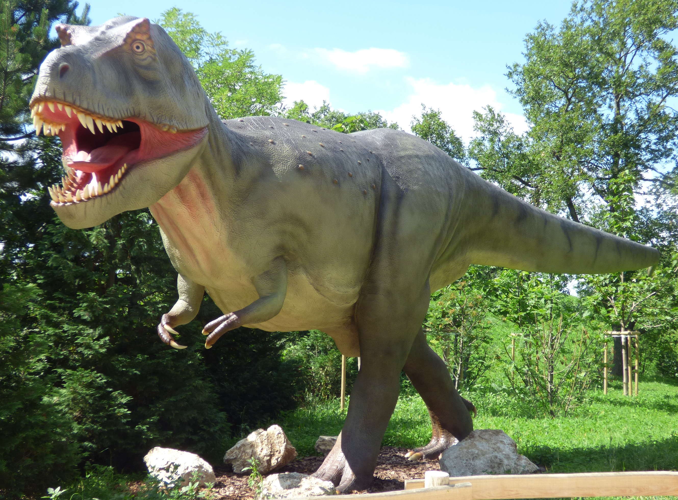 Tyrannosaurus rex model at the Kittenberger Kálmán Zoo and Botanical Garden in Veszprém, Hungary.